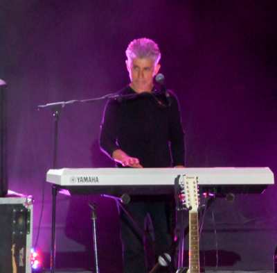 The Bulgarian keyboardist Konstantin Tsekov performing with the supergroup Legendite at the Summer Amphitheater, Burgas.